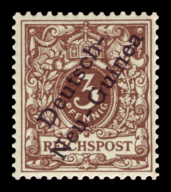 stamp series for German Colonies Ausgabepreis: 3 Pfennig First Day of Issue / Erstausgabetag: 1897 Michel-Katalog-Nr: 1 (Deutsche Kolonie Neu Guinea)